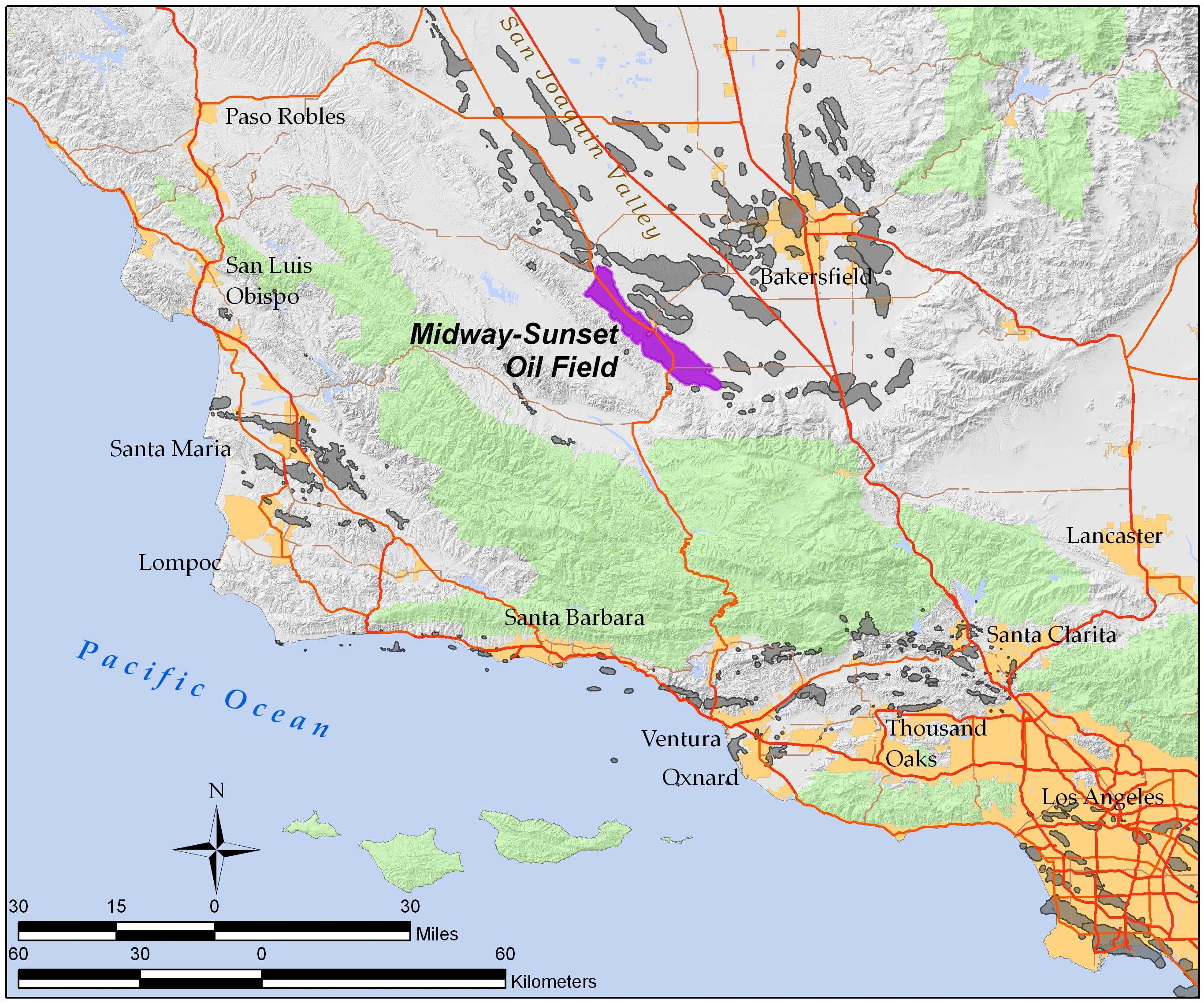 Location of Midway-Sunset Oil Field in southern and central California.